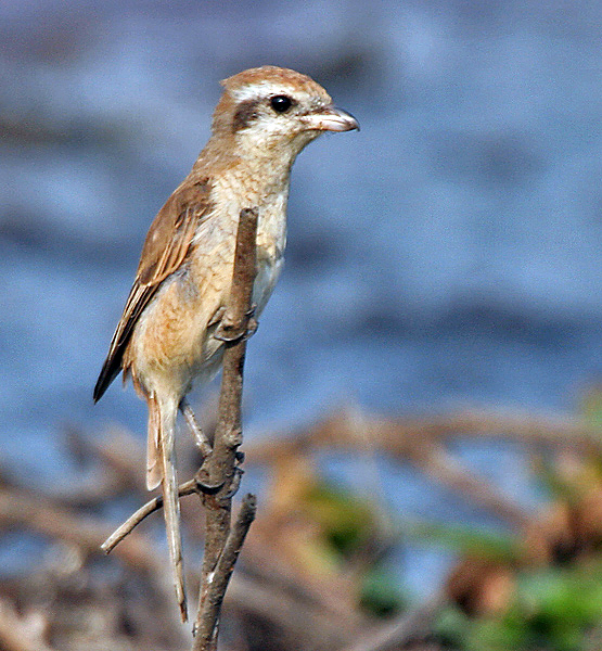 Brown Shrike ((Lanius cristatus)) in Kolkata, West Bengal, India.